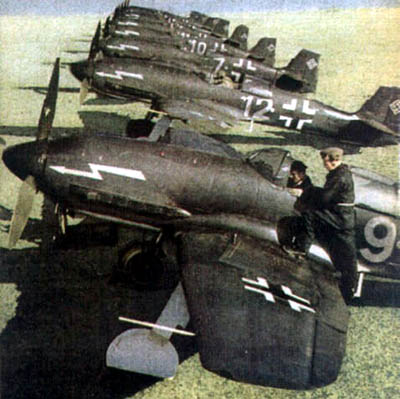 Heinkel He 100D Luftwaffe propaganda photo Original image found on: gwp/he100/he100.htm